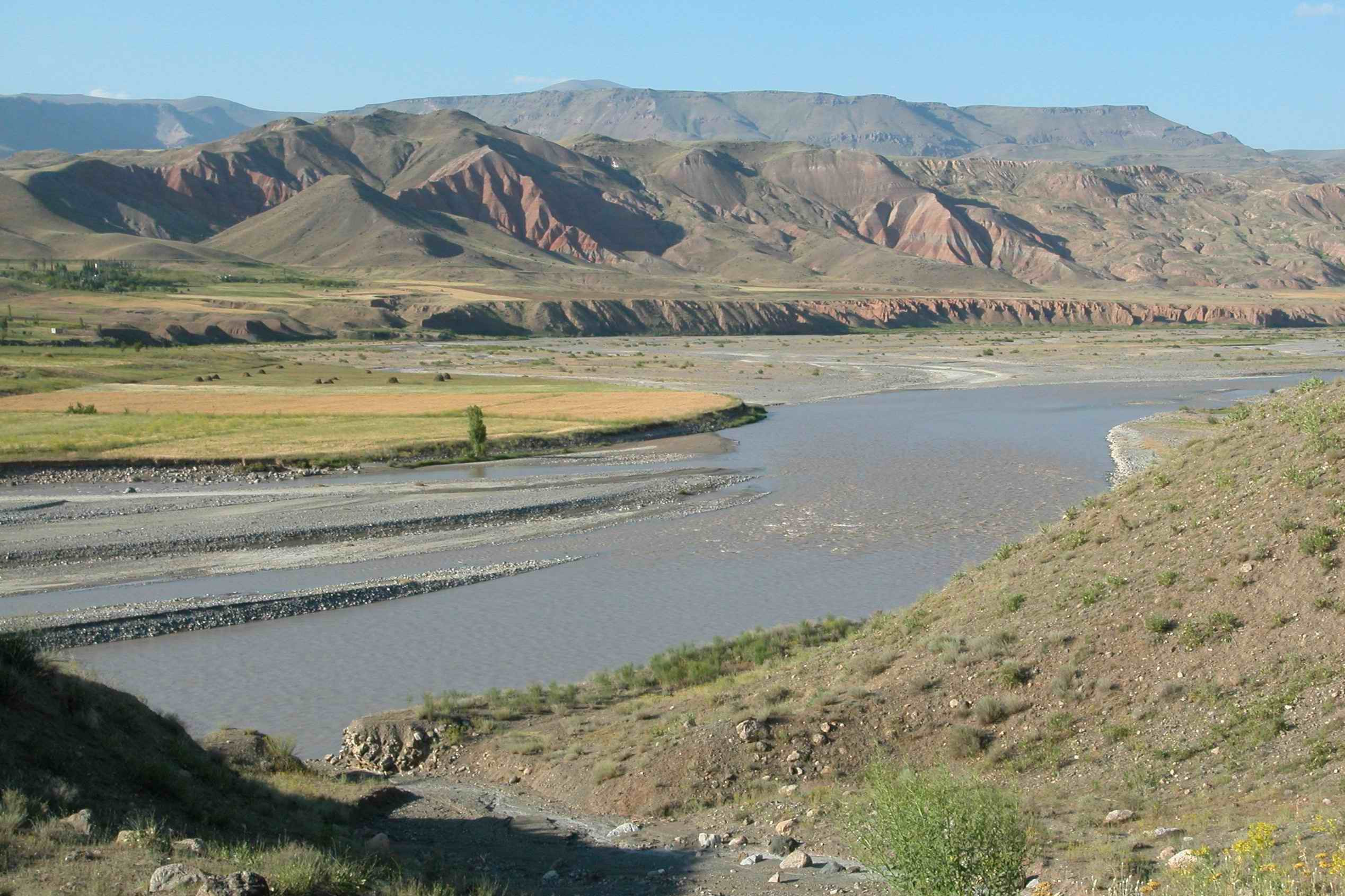 Semidesertic vegetation im the Aras Valley. Sparse plant cover consists mainly of drought and salt resistant Chenopodiaceae.- 35 km west of Tuzluca, 1110 m s.l. on 5.7.2003. From: G. Pils: Flowers of Turkey - a photo guide.- 448 pp.– Eigenverlag Gerhard Pils (2006).